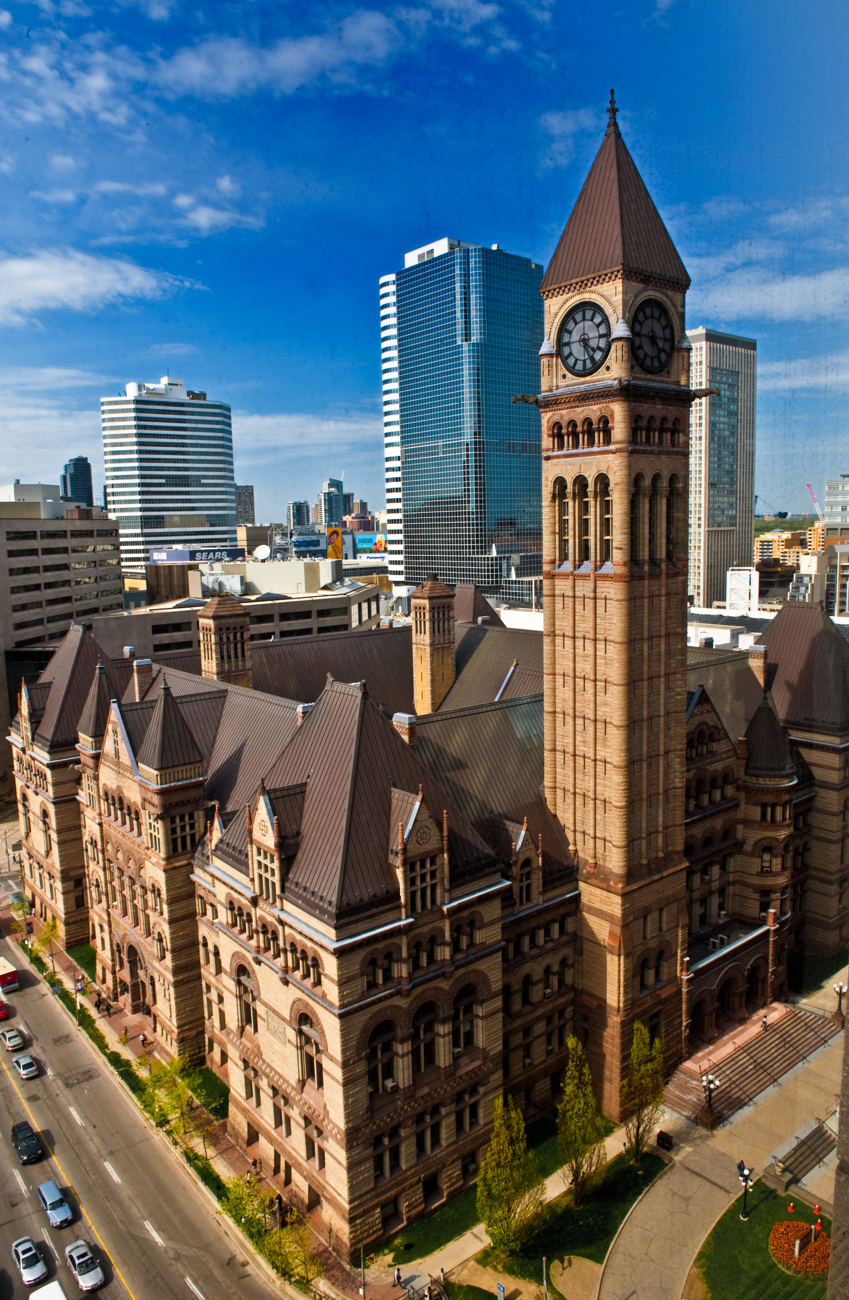 Old City Hall at Queen and Bay Streets. Toronto, Canada.